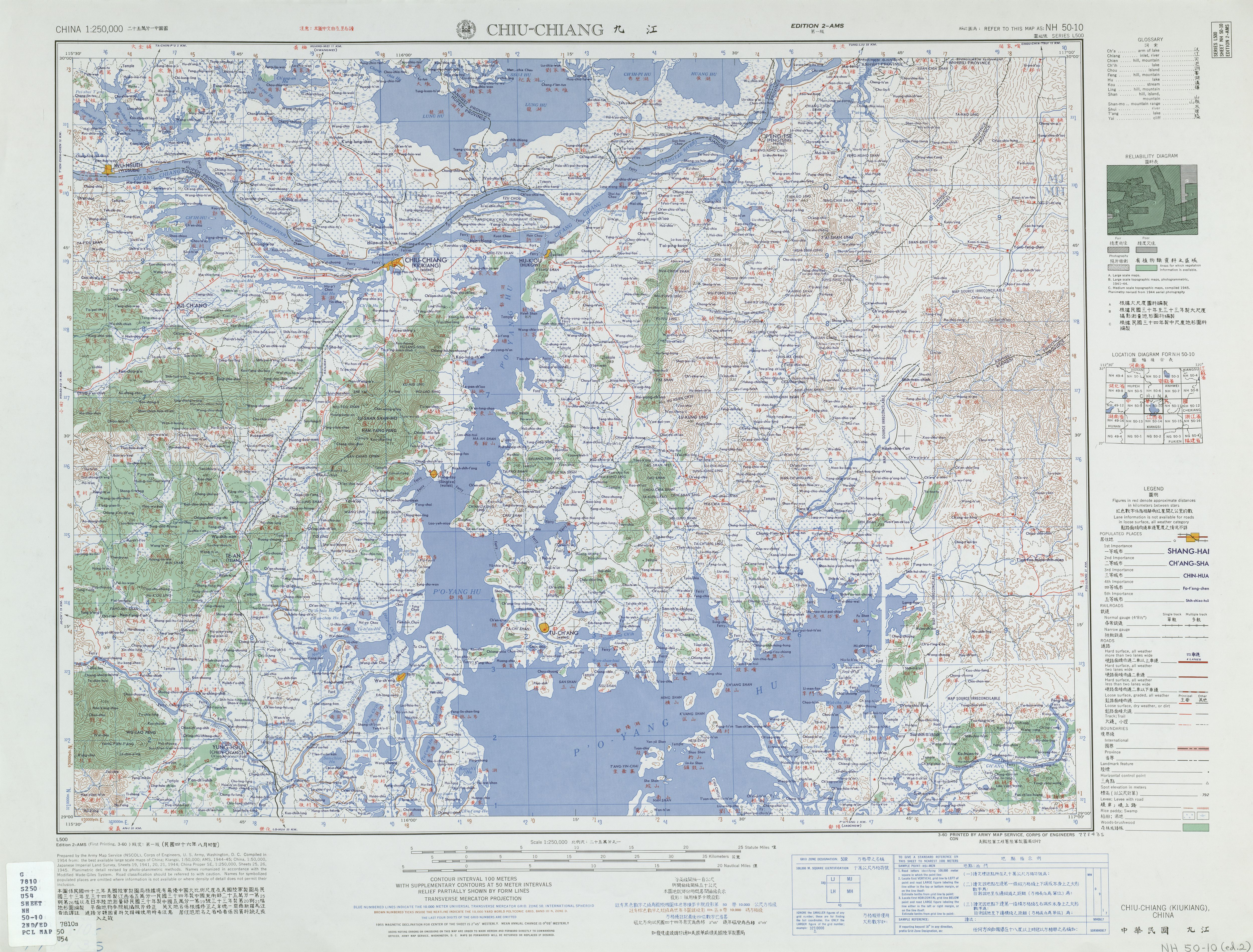 China AMS Topographic Maps series